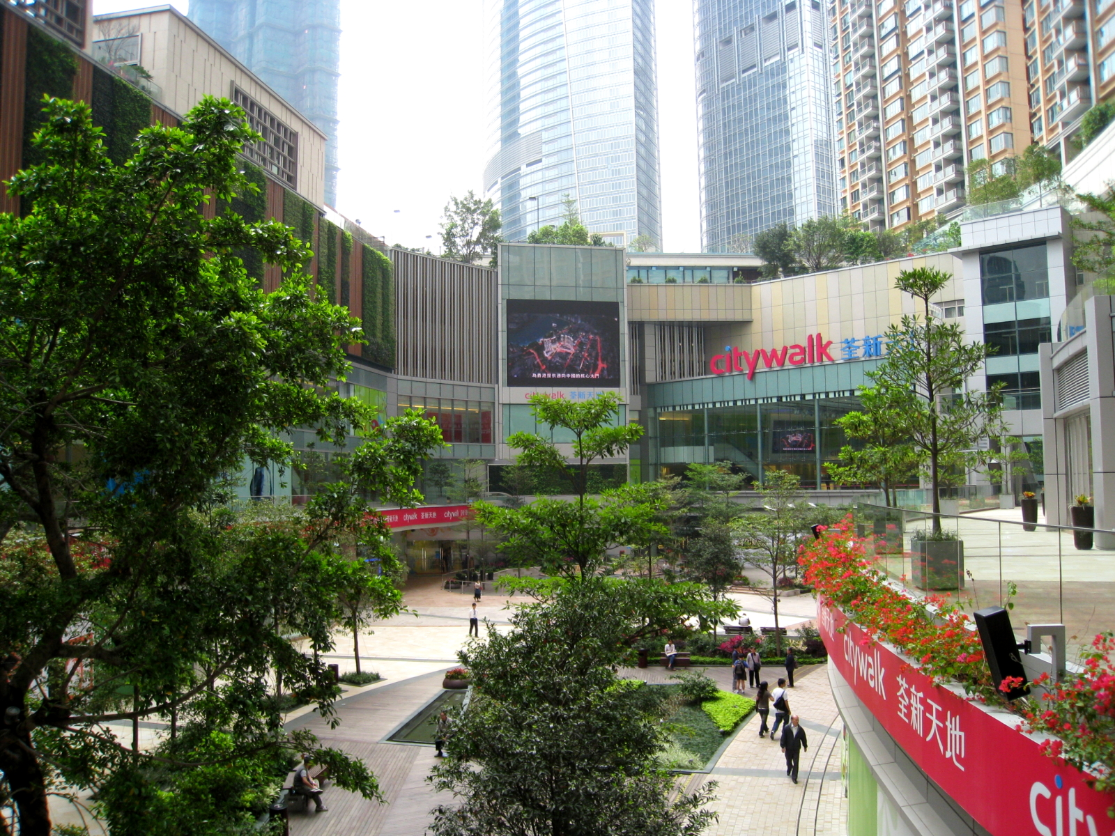 荃新天地商場 HK Citywalk Shopping Mall in Tsuen Wan